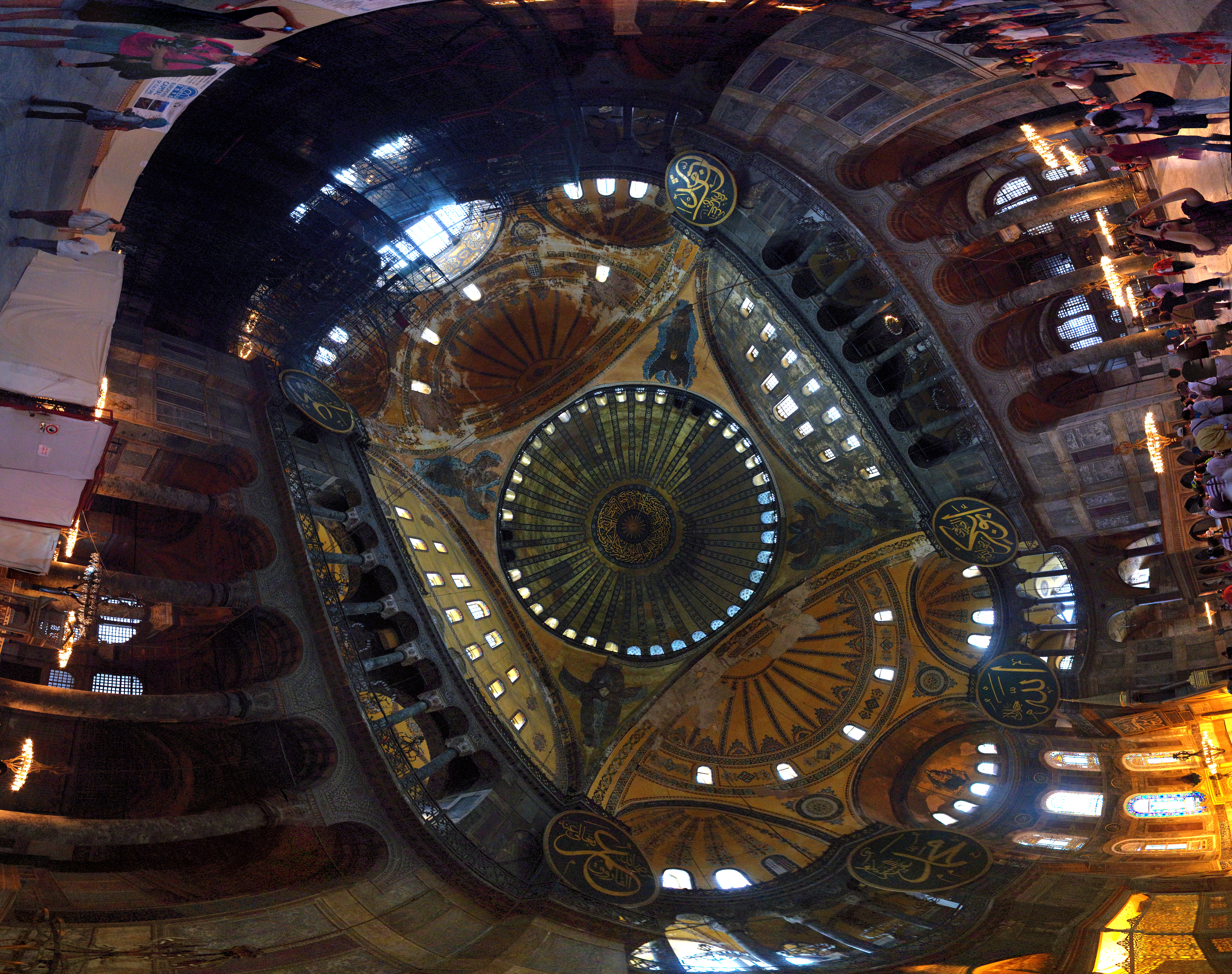 Interior panorama of the Hagia Sophia, which is now a museum.